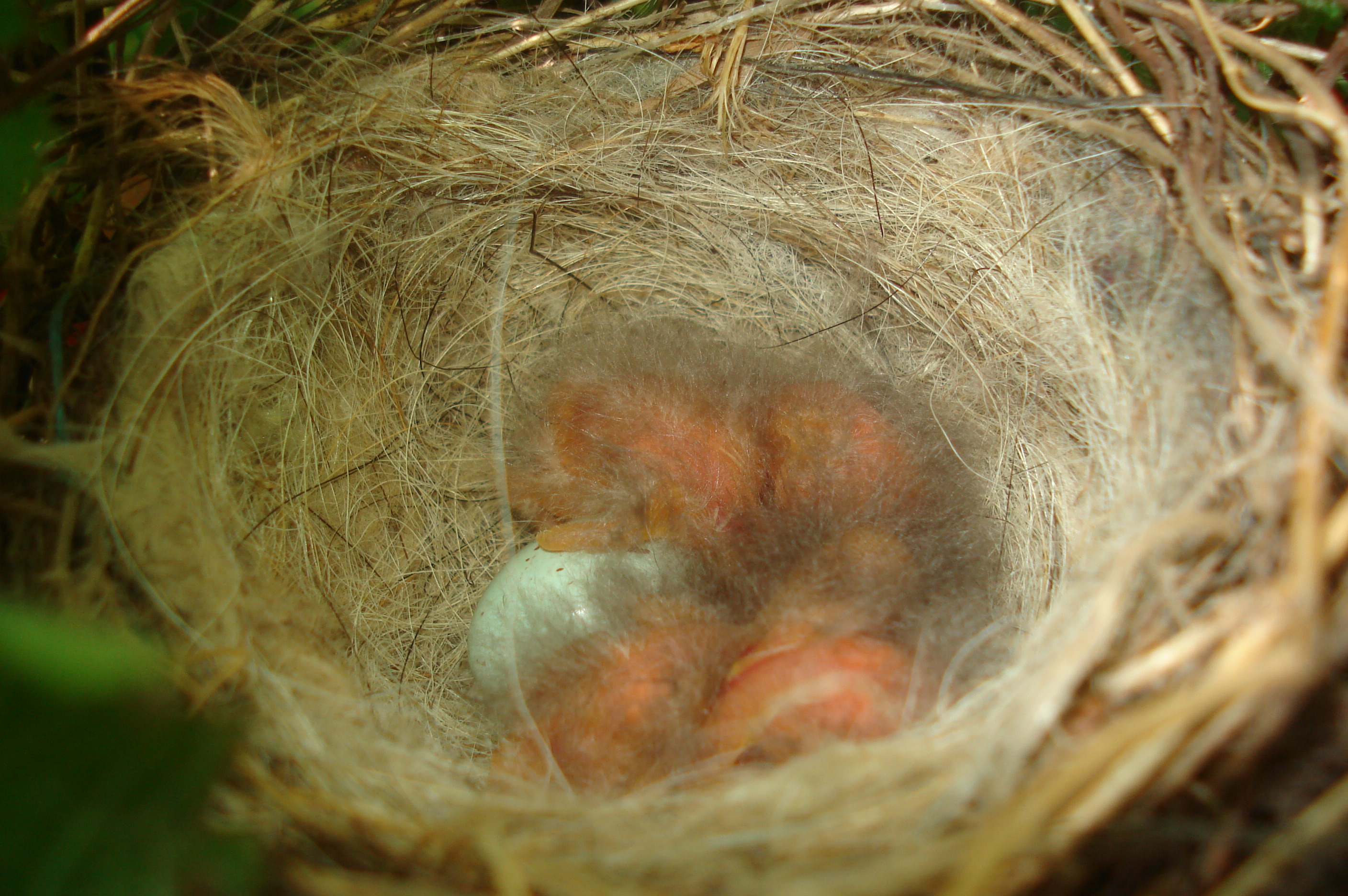 Linnet (Acanthis cannabina)